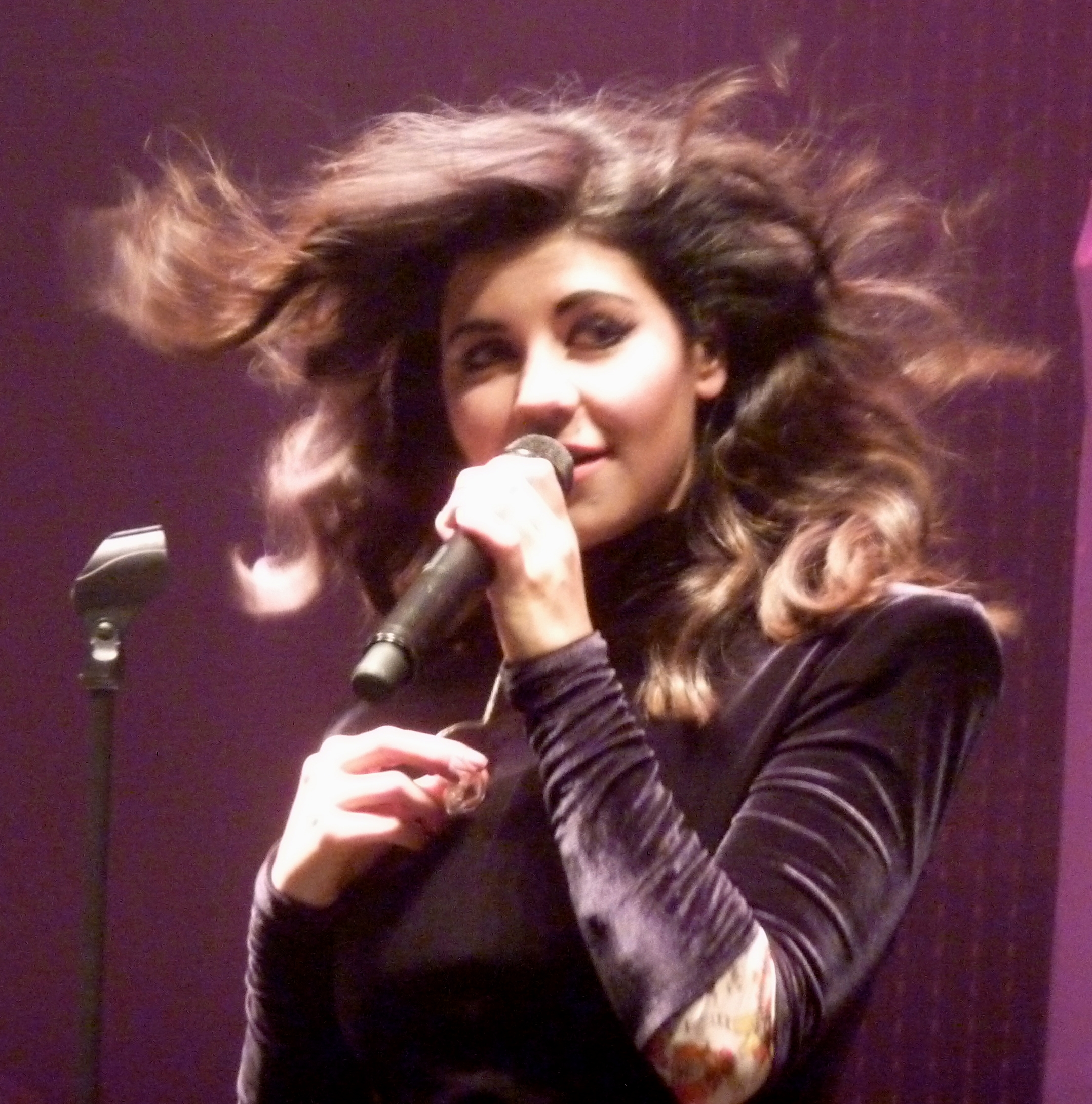 Marina & the Diamonds at the Roundhouse in Camden, United Kingdom. (8 November 2010).